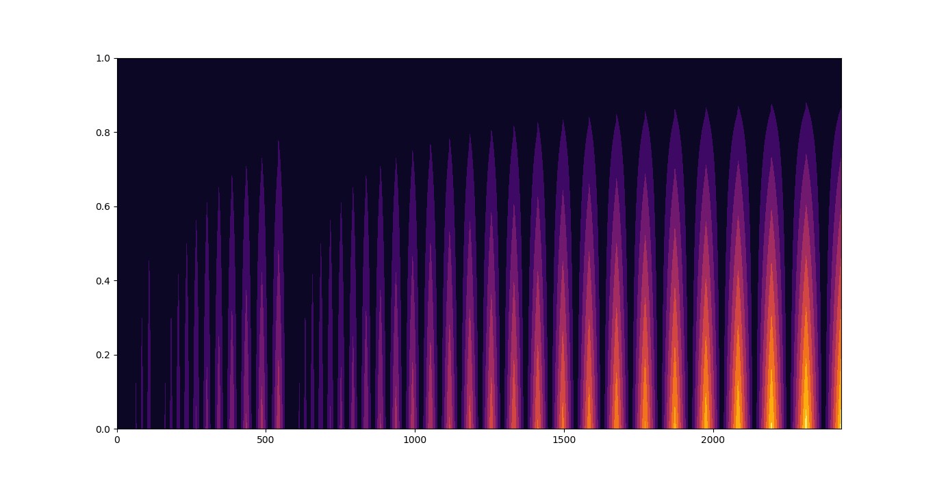 number of recursion before return of ackerman(3,3)